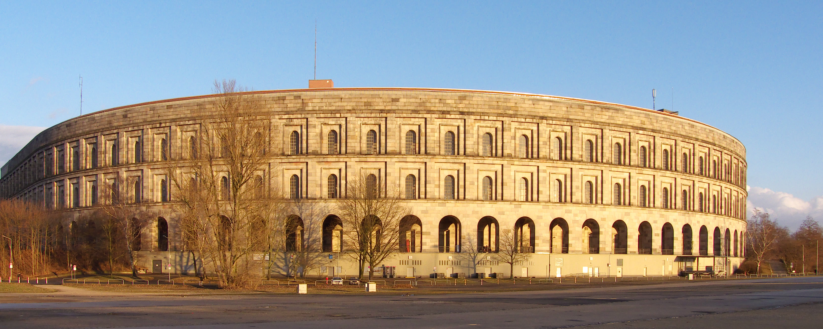 The congress hall on the Nazi party rally grounds in Nürnberg, Germany